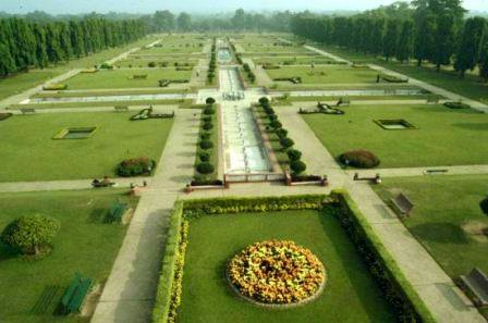 Jubilee Park, Jamshedpur